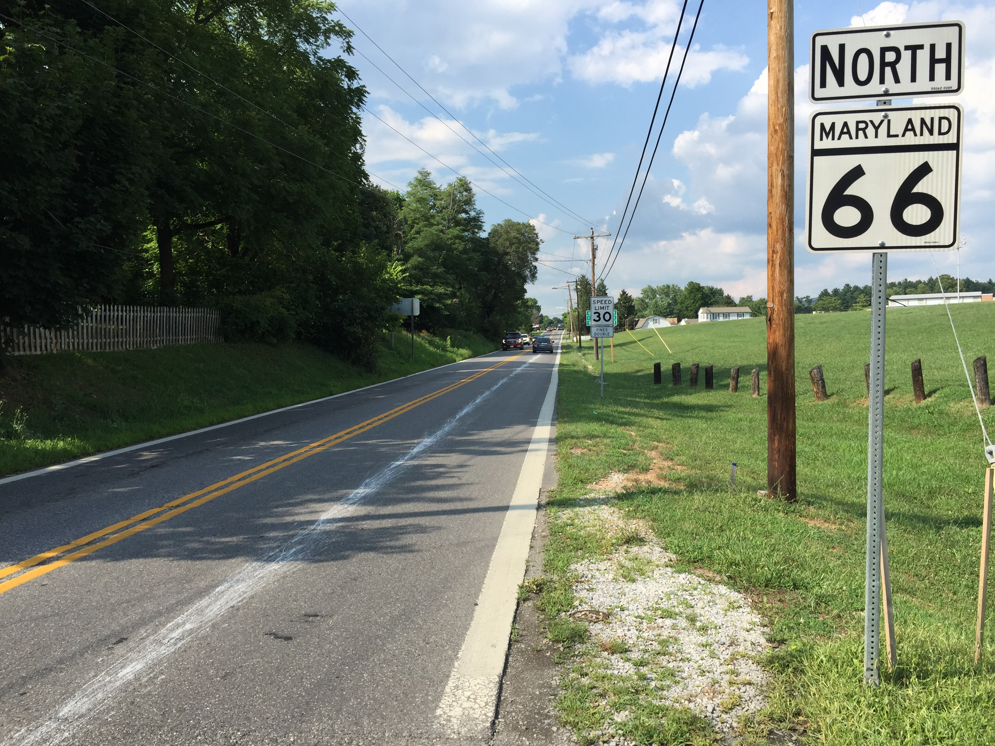 View north along Maryland State Route 66 (Maple Avenue) at Campus Avenue in Boonsboro, Washington County, Maryland